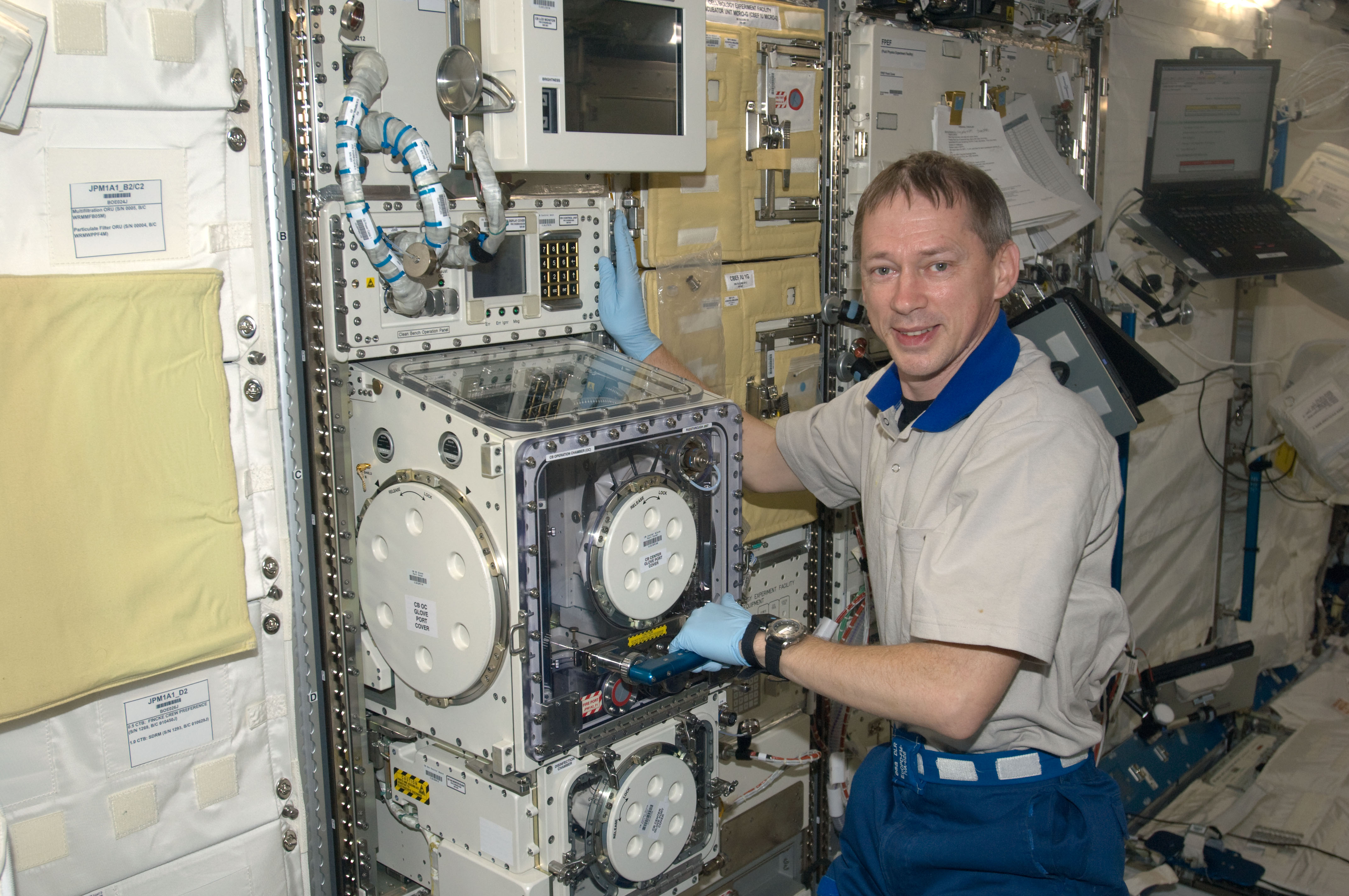 European Space Agency astronaut Frank De Winne, Expedition 20 flight engineer, works at the Clean Bench Facility in the Kibo laboratory of the International Space Station.